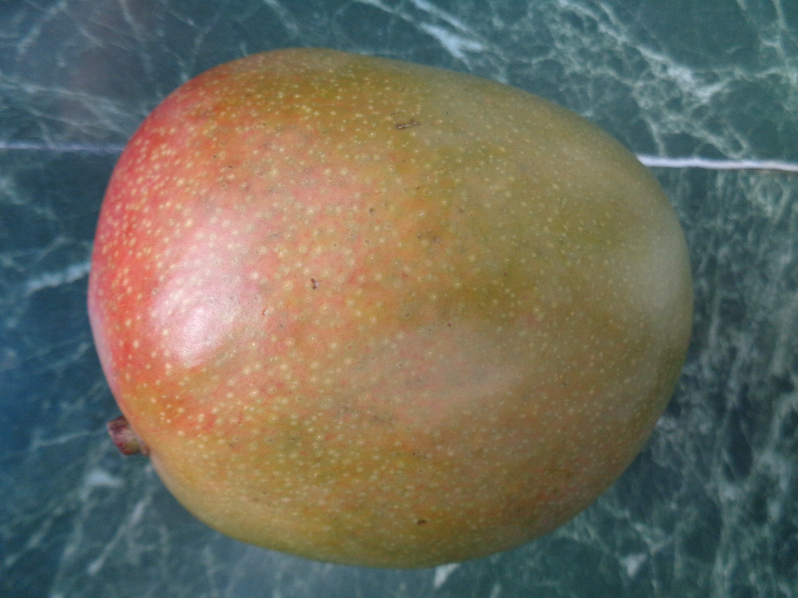 Ripe mango fruit on green background